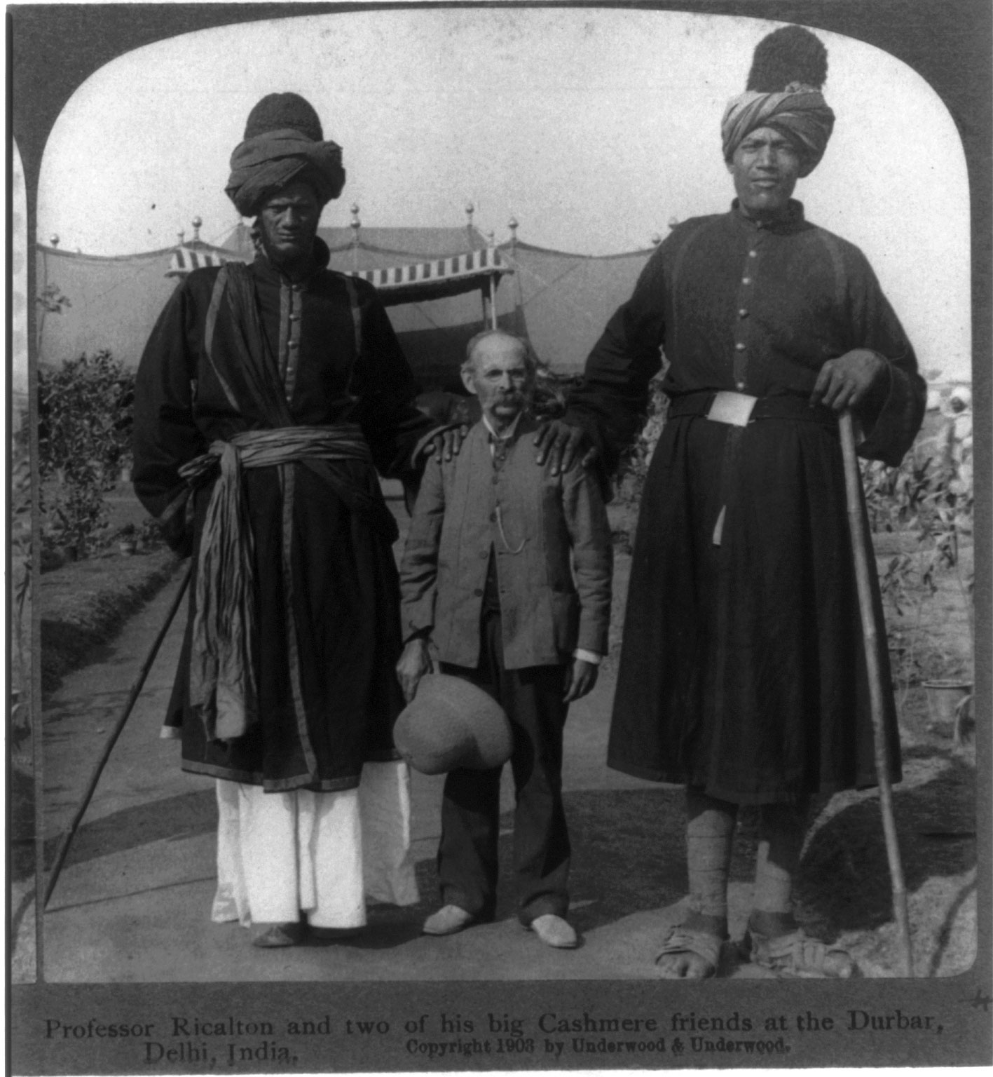 Professor James Ricalton and two of his Kashmir friends at the 1903 Delhi Durbar